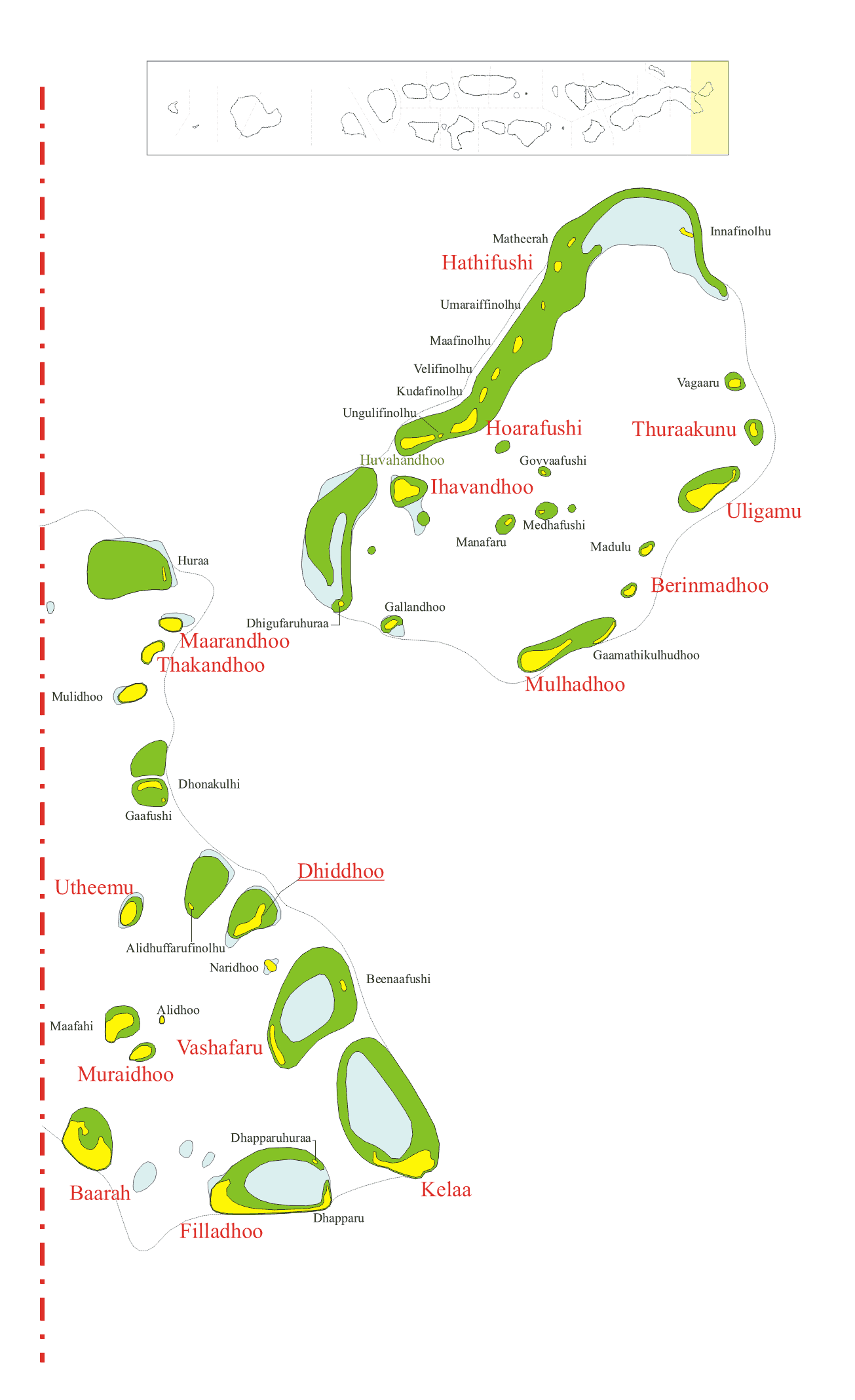 Map of Haa_Alif_Atoll Map originally vector'ed by Hassan Waheed, Aabaadhuge of Thinadhoo island. Note: This section of map was extracted and its text was romanized by Oblivious. Special assitance by Waddey and Zuru Converted to PNG by helix84